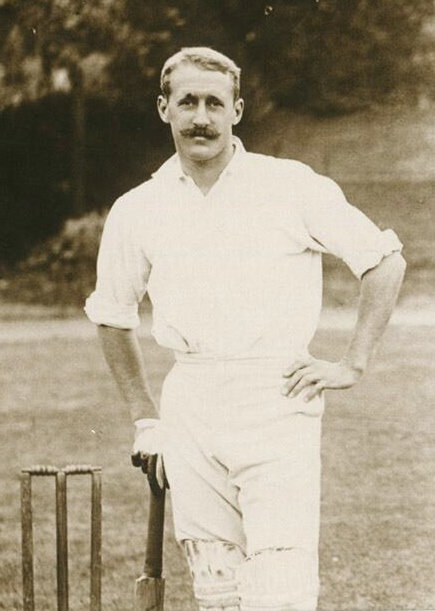 Louis Joseph Tancred, Transvaal, London County & South Africa, 1896-1920. Excellent ink signature of Tancred on piece laid down to slightly larger card. Sold with a sepia copy photograph of Tancred.